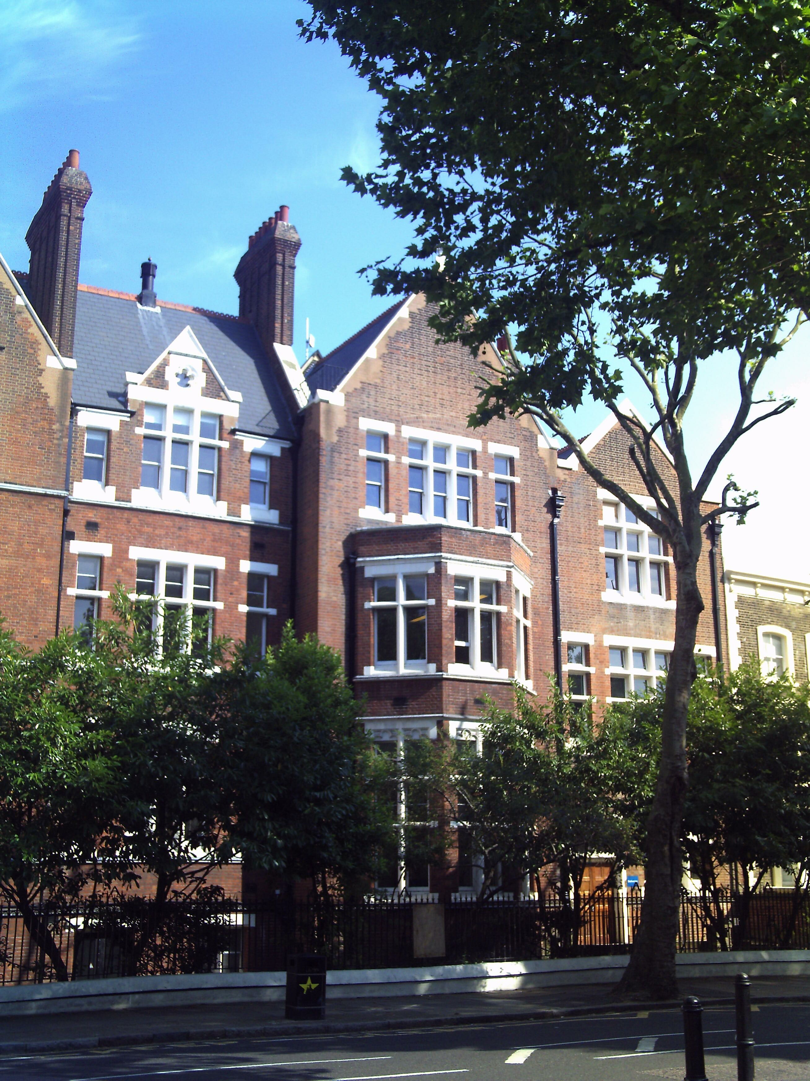 View of Raine's Foundation School, Approach Road Site, Tower Hamlets, London, UK.